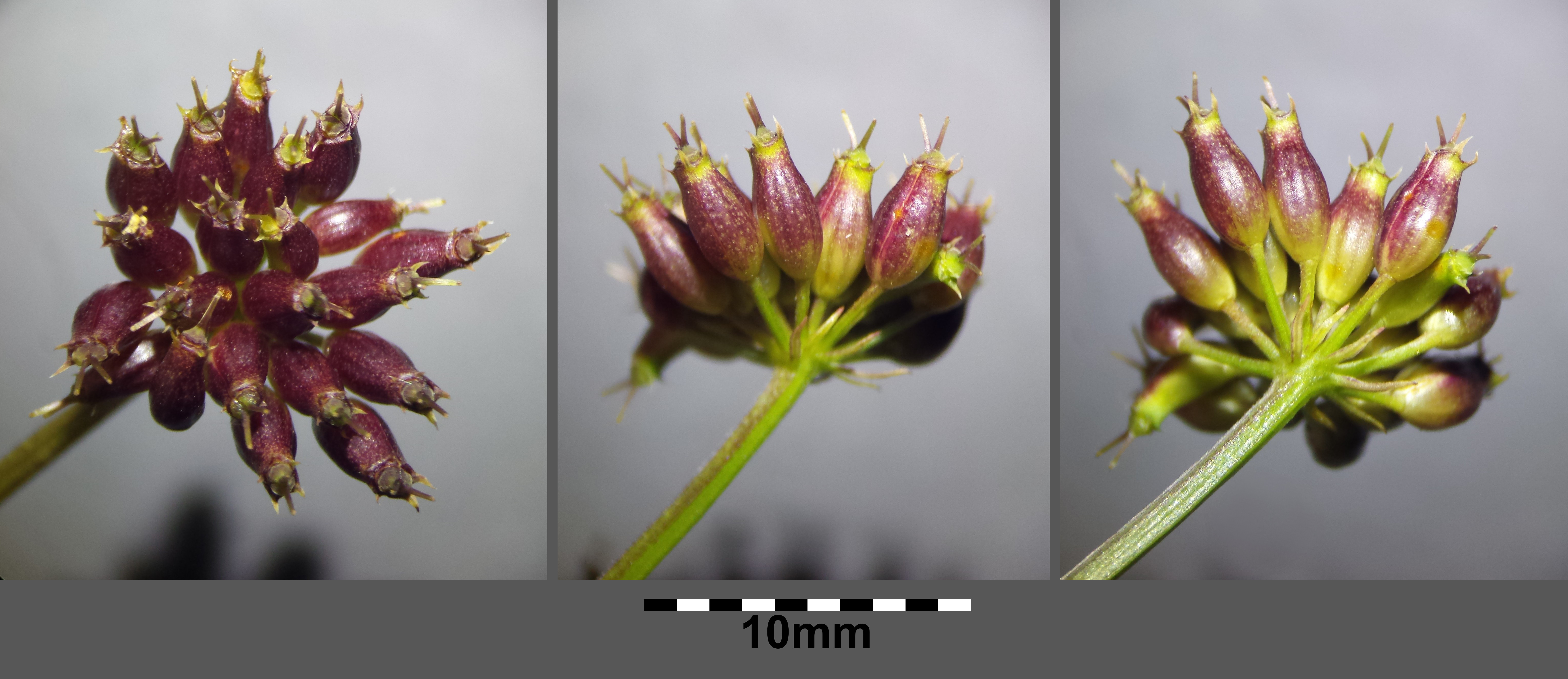 Umbellet with fruits Taxonym: Oenanthe aquatica ss Fischer et al. EfÖLS 2008 ISBN 978-3-85474-187-9 Location: Žárský rybník, Jihočeský kraj, Czech Republic - ca. 500 m a.s.l. Habitat: shore of a pond